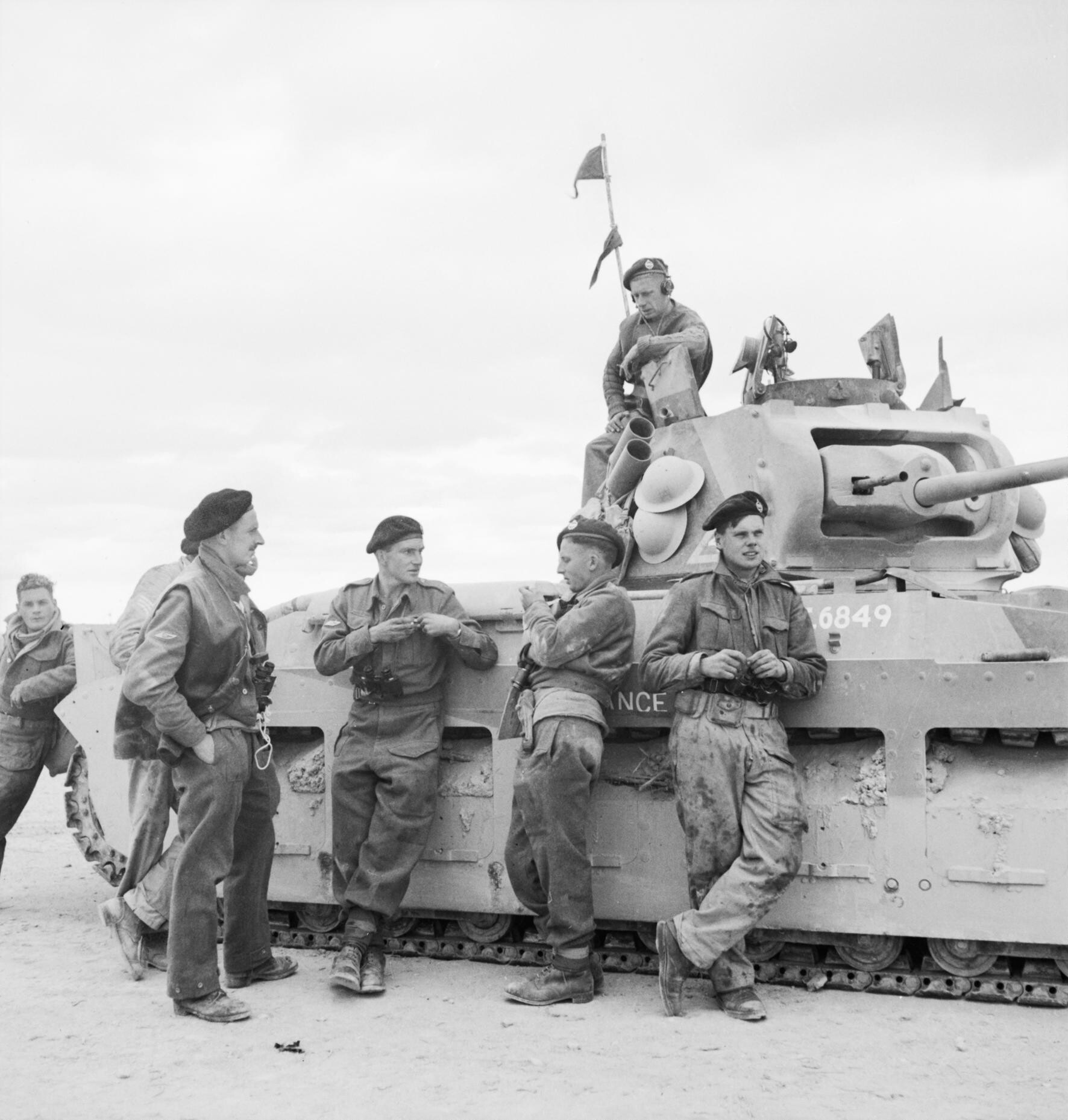 The British Army in North Africa 1941 The crew of a Matilda tank take a break during the fighting near Tobruk, 28 November 1941.